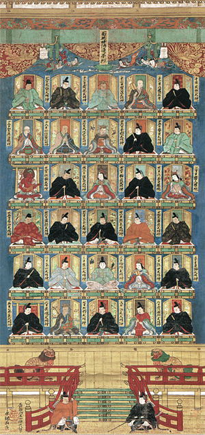 Sanju Banshin, by Hasegawa Tohaku, Daihoji, Takaoka, Toyama, Japan